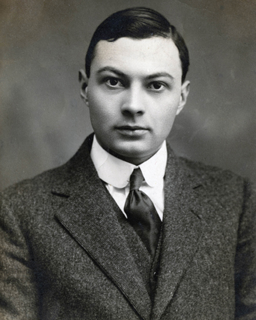 Hugyecz László (Besztercebánya, Austro-Hungarian Empire 1893.01.08 - Berkeley, California, U.S.A 1958.10.26).